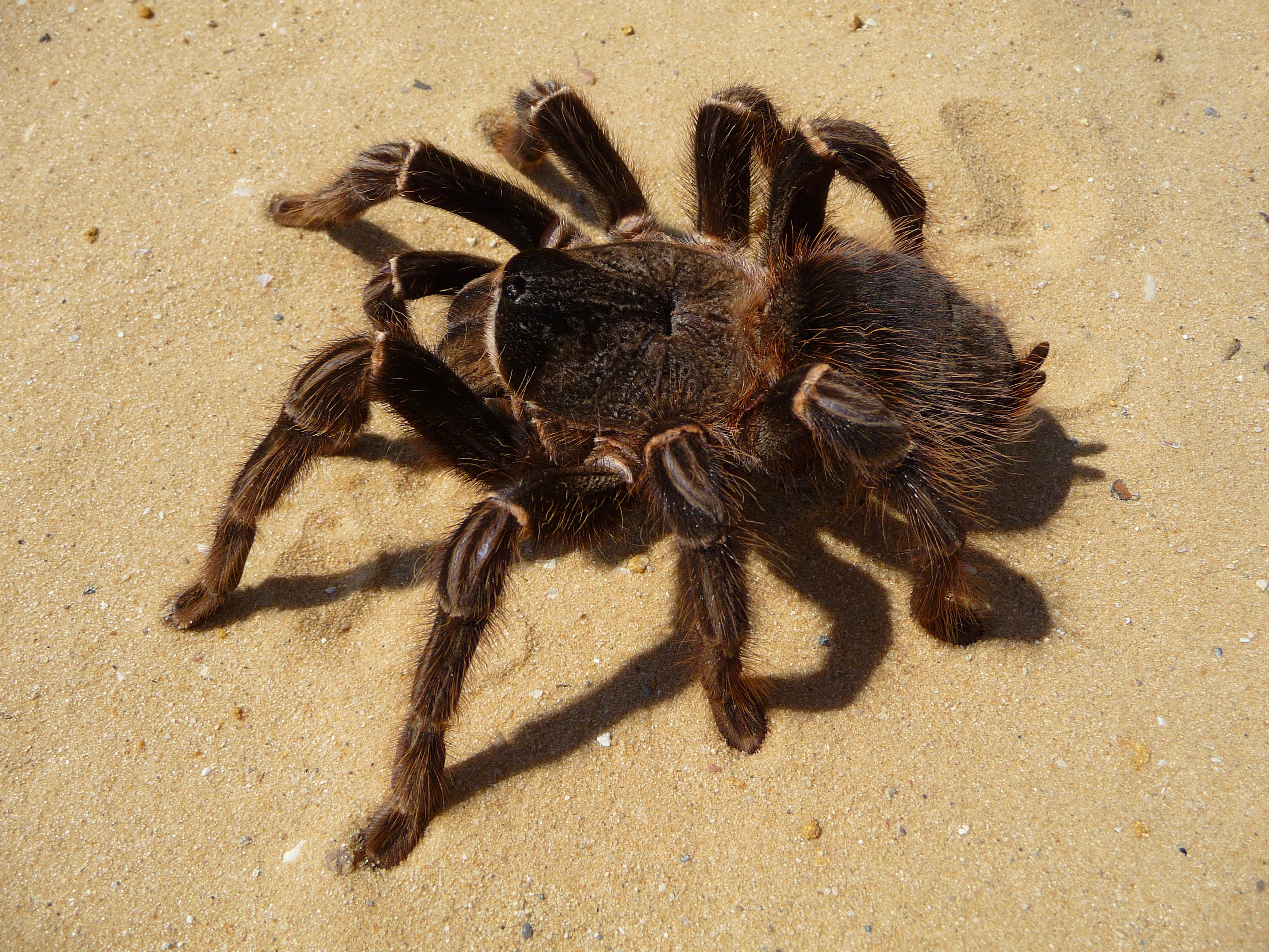 Brazilian salmon pink tarantula (aslo birdeater) adult female (Lasiodora parahybana). This large spider typically grows to a leg span of 20 cm (8 in), although occasionally exceptional specimens can reach leg spans of 25 cm (10 in). Large females can weigh upwards of 100 grams. This venomous spider can eat birds, reptiles and small mammals.